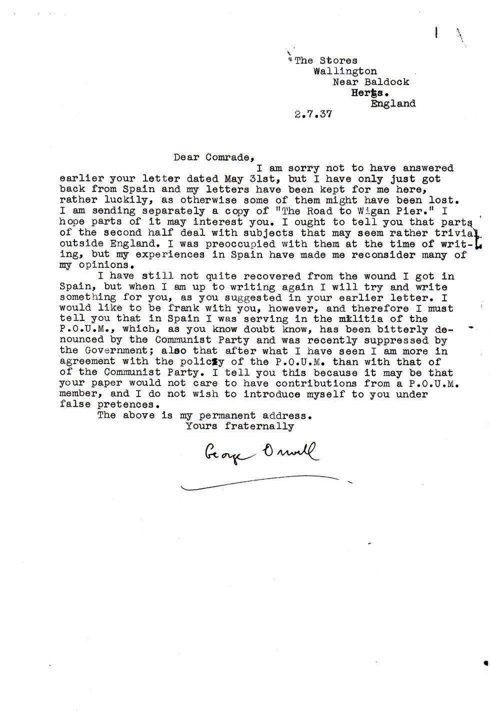 The one and probably the only Orwell’s letter to the Soviet Union. The letter is originally addressed to Sergey Dinamov, an Editor-in-Chief of Internatsionalnaya Literatura magazine, who wrote a letter to Orwell, while the latter was in Spain fighting Franco’s troops, asking a copy of his novel The Road to Wigan Pier and permission to cover it in the magazine. Orwell read the letter only a month later, after coming back from Spain and this literary prolonged Dinamov’s life for a month. Orwell then sent a copy of the book to Dinamov, but he was deeply skeptical about possible coverage of the book in Soviet journals on literature criticism. However, the Orwell’s letter was intercepted by NKVD and carefully examined, and eventually Dinamov was arrested later the same year on mix charges as an enemy of the state, and soon executed.